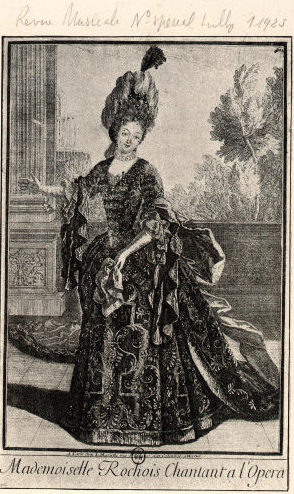 Marthe Le Rochois, French operatic soprano (1650–1728)